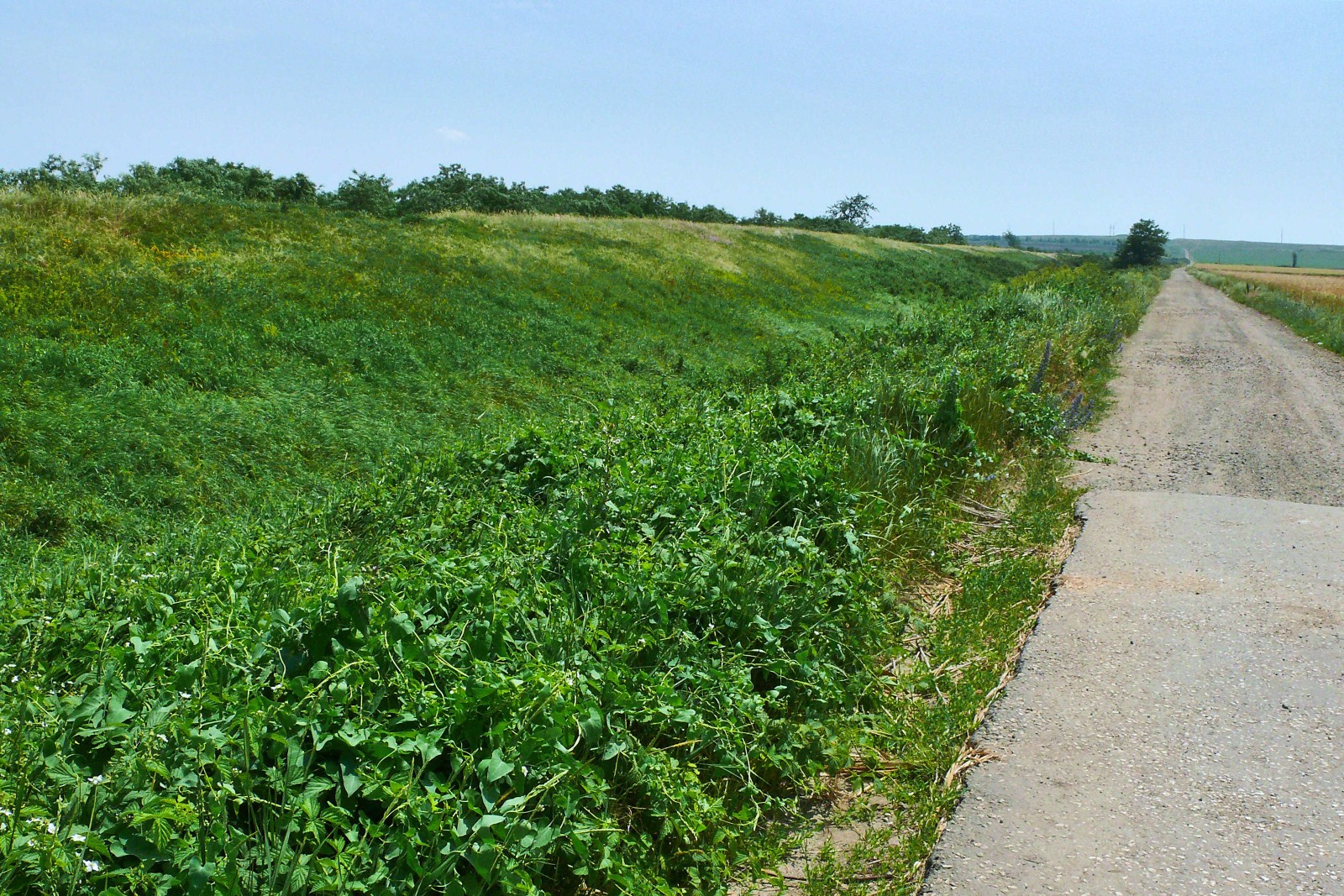 Serpent's Wall - Kimmerians Wall - Kerch Peninsula in Crimea